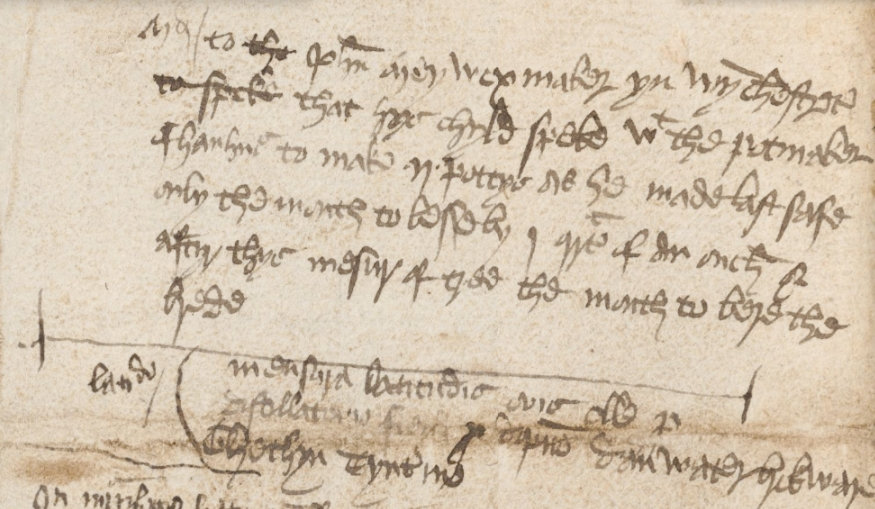 Willelmus Worcestre, Itinerarium (MS. CCCC Parker 210) p. 54 summa